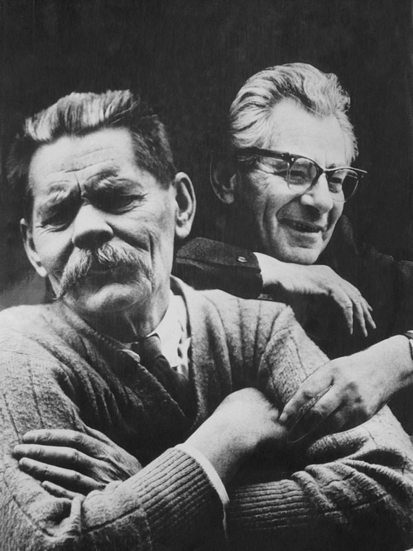 Max Alpert in Chisinau railway station. Author: Ion Chibzii.